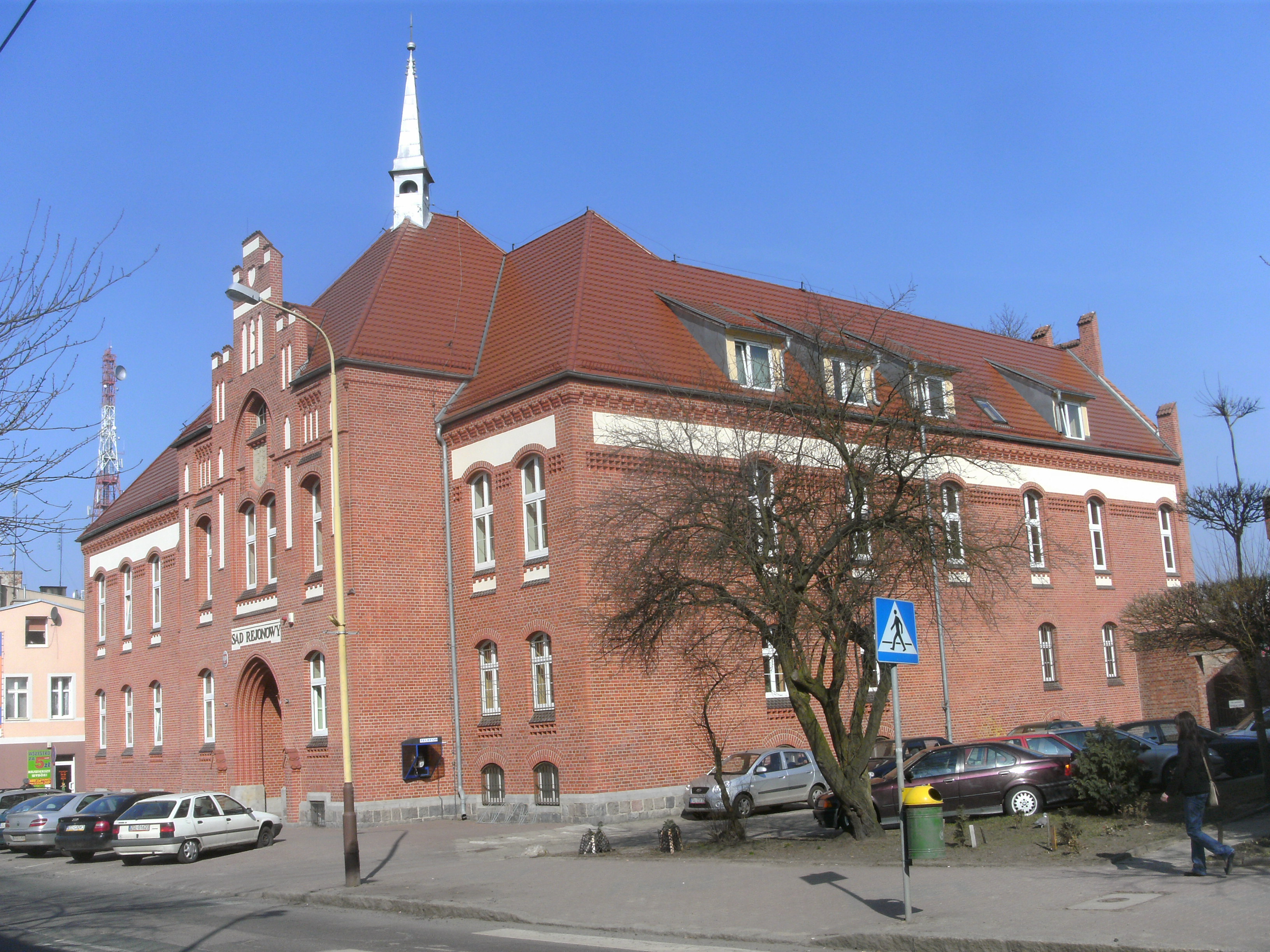 Goleniów District Court